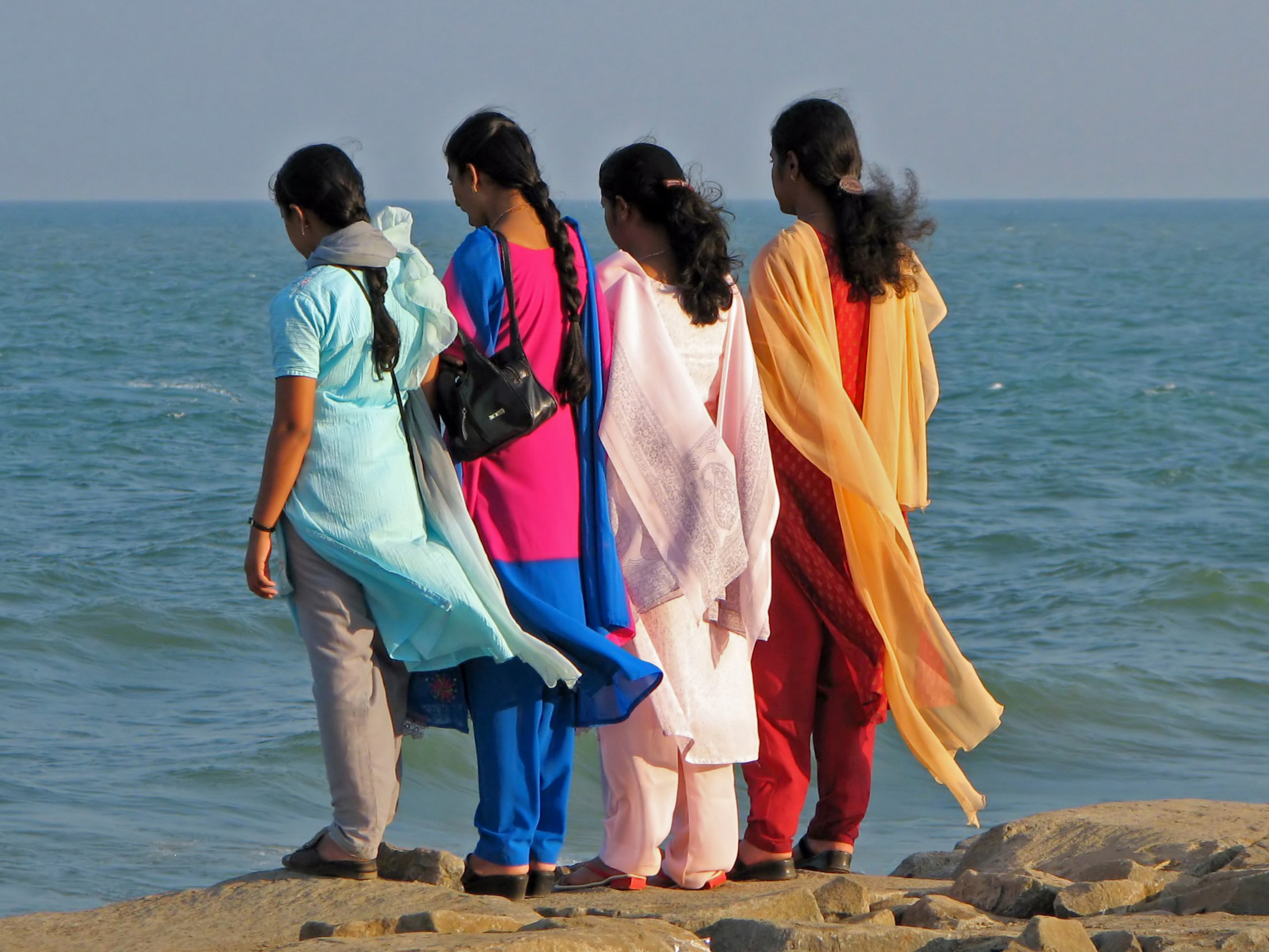 Young women looking at the Bay of Bengal at Puducherry, India